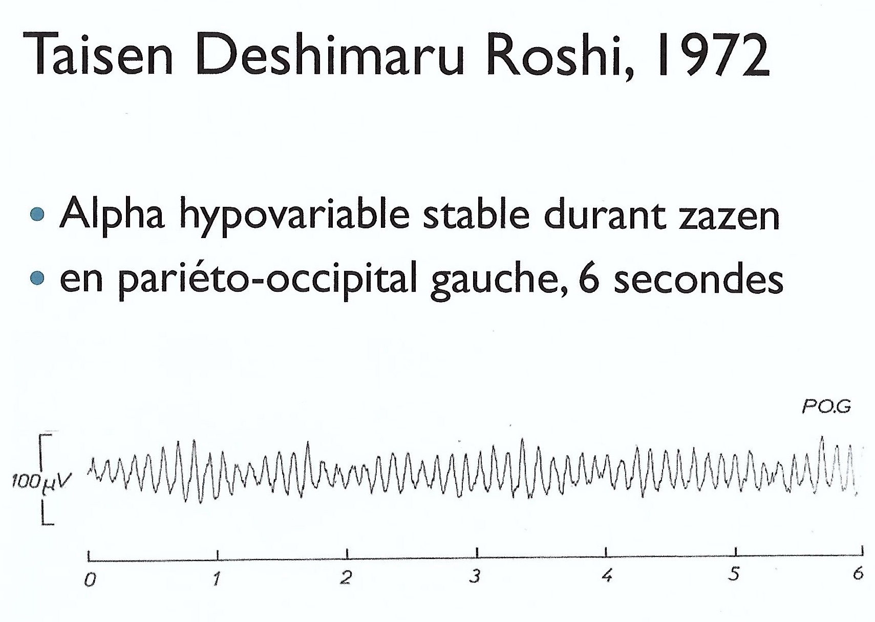 EEG tracing of Taisen Deshimaru who is recorded in quantitative electroencephalography with computerized spectral analysis by Dr. Pierre Etevenon. EEG recordings in 1971, realized at Centre Hospitalier Sainte-Anne, sitted 30 minutes in meditation zazen in front of the white wall of the Laboratoire d'explorations fonctionnelles du système nerveux of Dr. Georges Verdeaux, in presence of the biologist Dr. Jean-Georges Henrotte